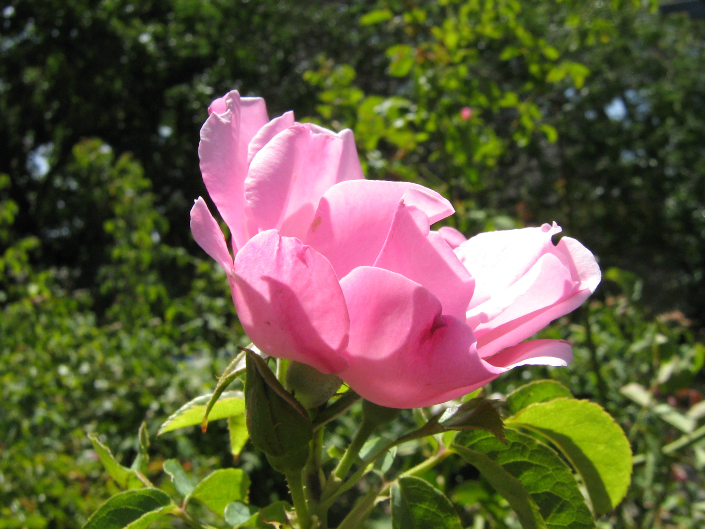 Alister Clark climbing hybrid tea rose Cicely O'Rorke 1937